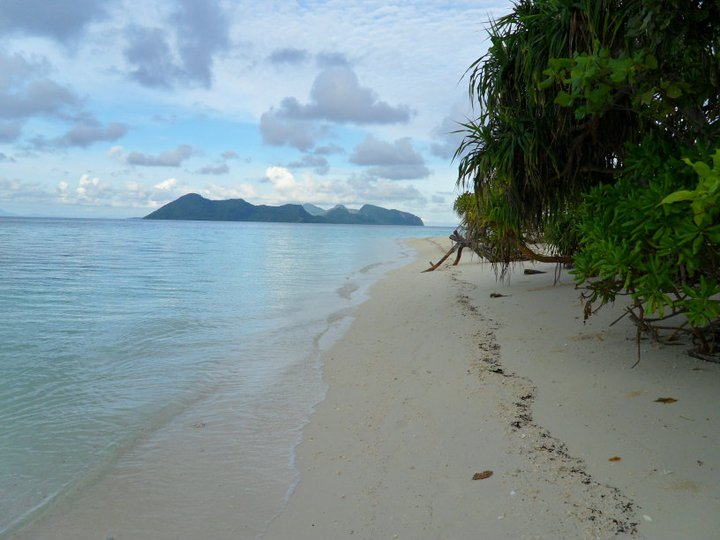 Pom Pom Island beach looking west towards Tun Sakaran Marine Park. Part of the turtle nesting beach.